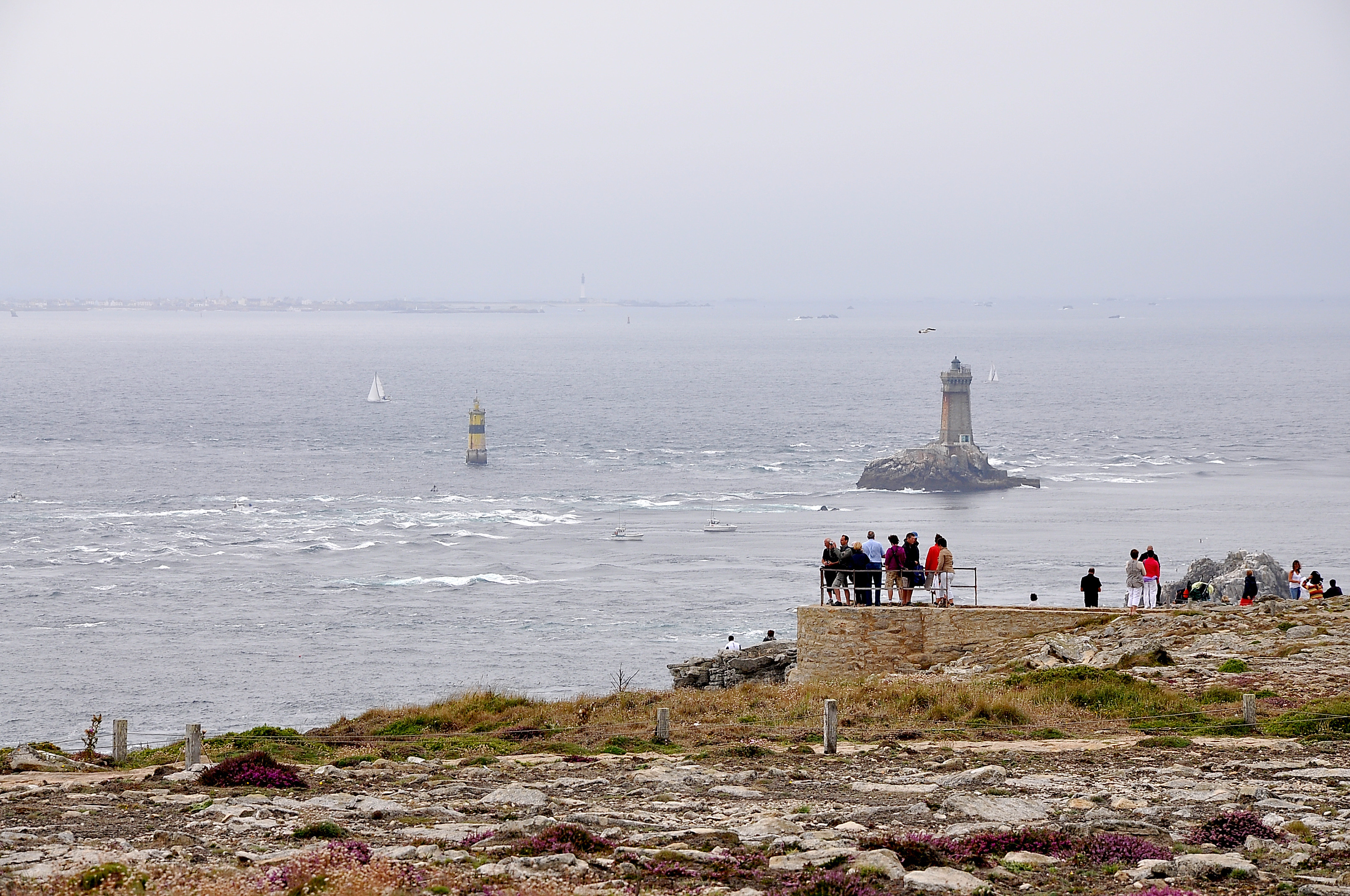 Pointe du Raz in Finistère, France with La Vielle and La Plate lighthouses. On the horizon a lighthouse Grand phare de l'île de Sein.